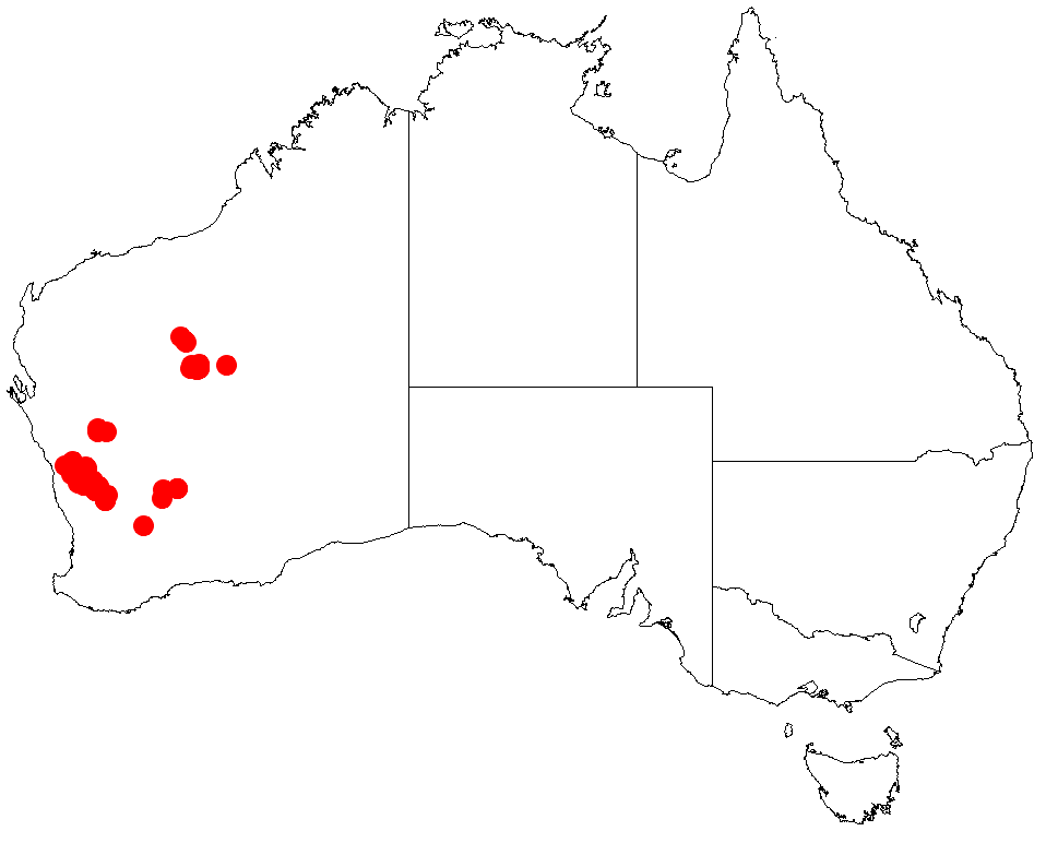 Acacia daviesioides occurrence data from Australasian Virtual Herbarium downloaded from on 8 December 2018